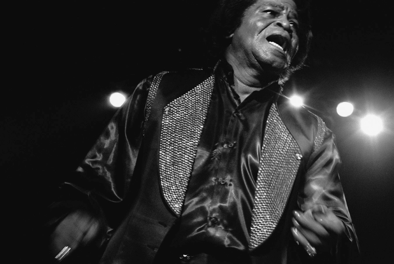 James Brown in Bremen/Germany